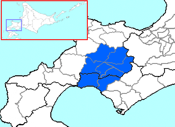 The location of Abuta District in Iburi and Shiribeshi Subprefecture, Hokkaido Prefecture, Japan.